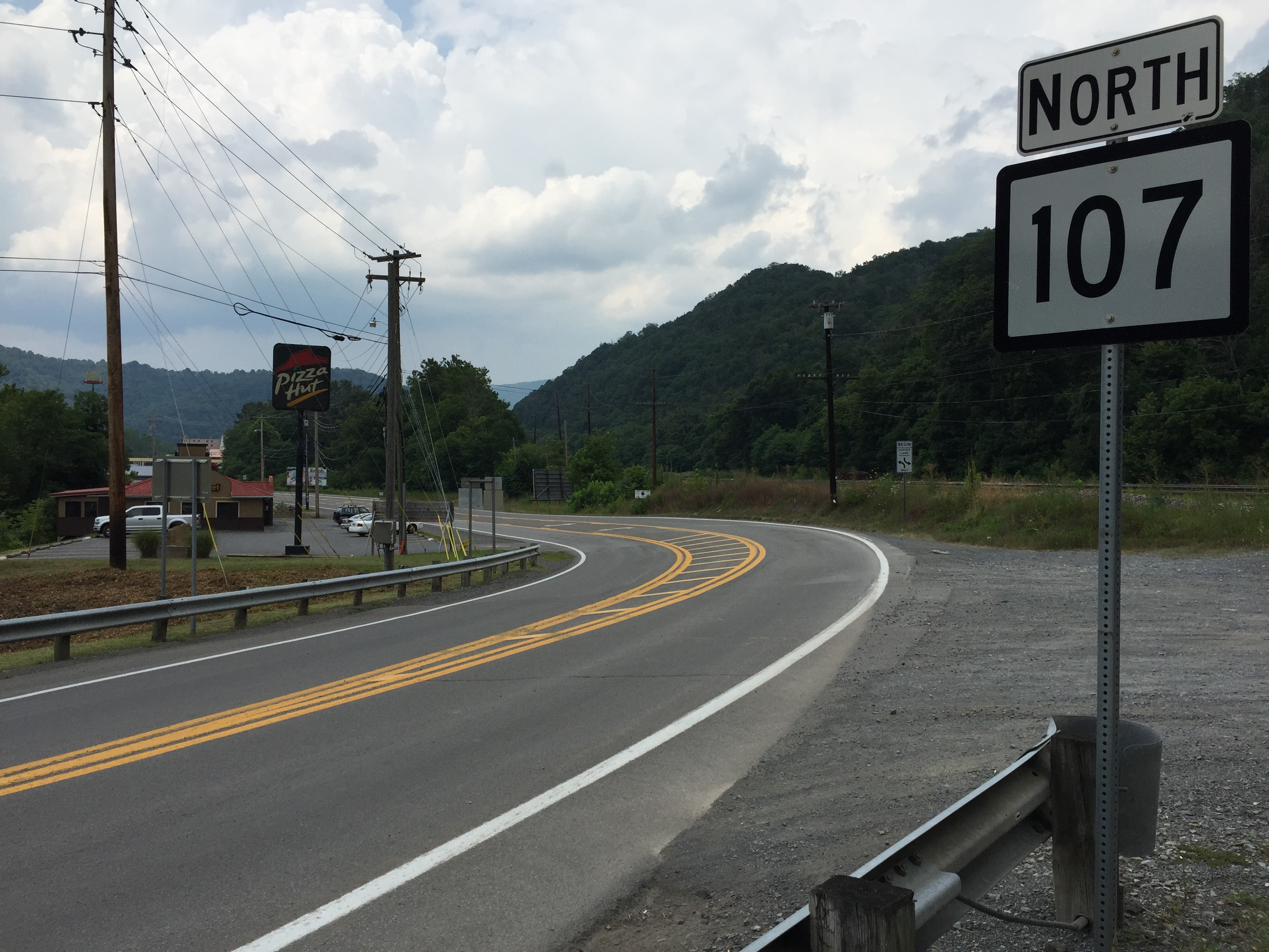 View north along West Virginia State Route 107 (Stokes Drive) just north of West Virginia State Route 3 (Greenbrier Drive) in Hinton, Summers County, West Virginia